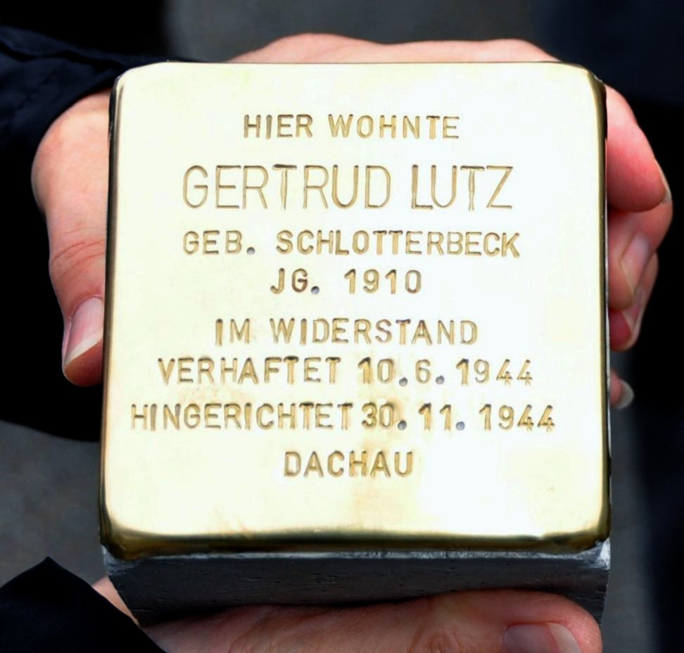 Stolperstein for Gertrud Lutz in Stuttgart, Germany